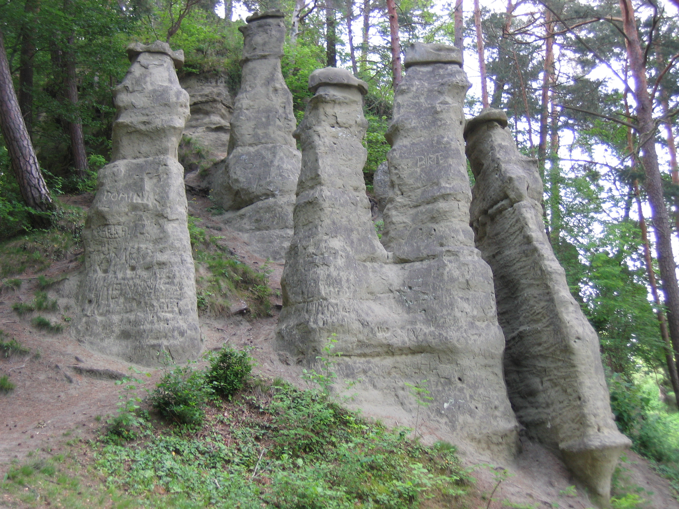 Germany - Baden-Württemberg - Bodenseekreis - Sipplingen: "Churfirsten"